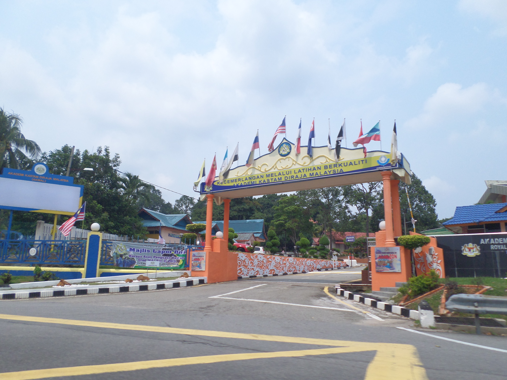 Royal Malaysian Customs Academy, Bukit Baru, Malacca, MalaysiaBahasa Melayu: Akademi Kastam Diraja Malaysia, Bukit Baru, Melaka, Malaysia